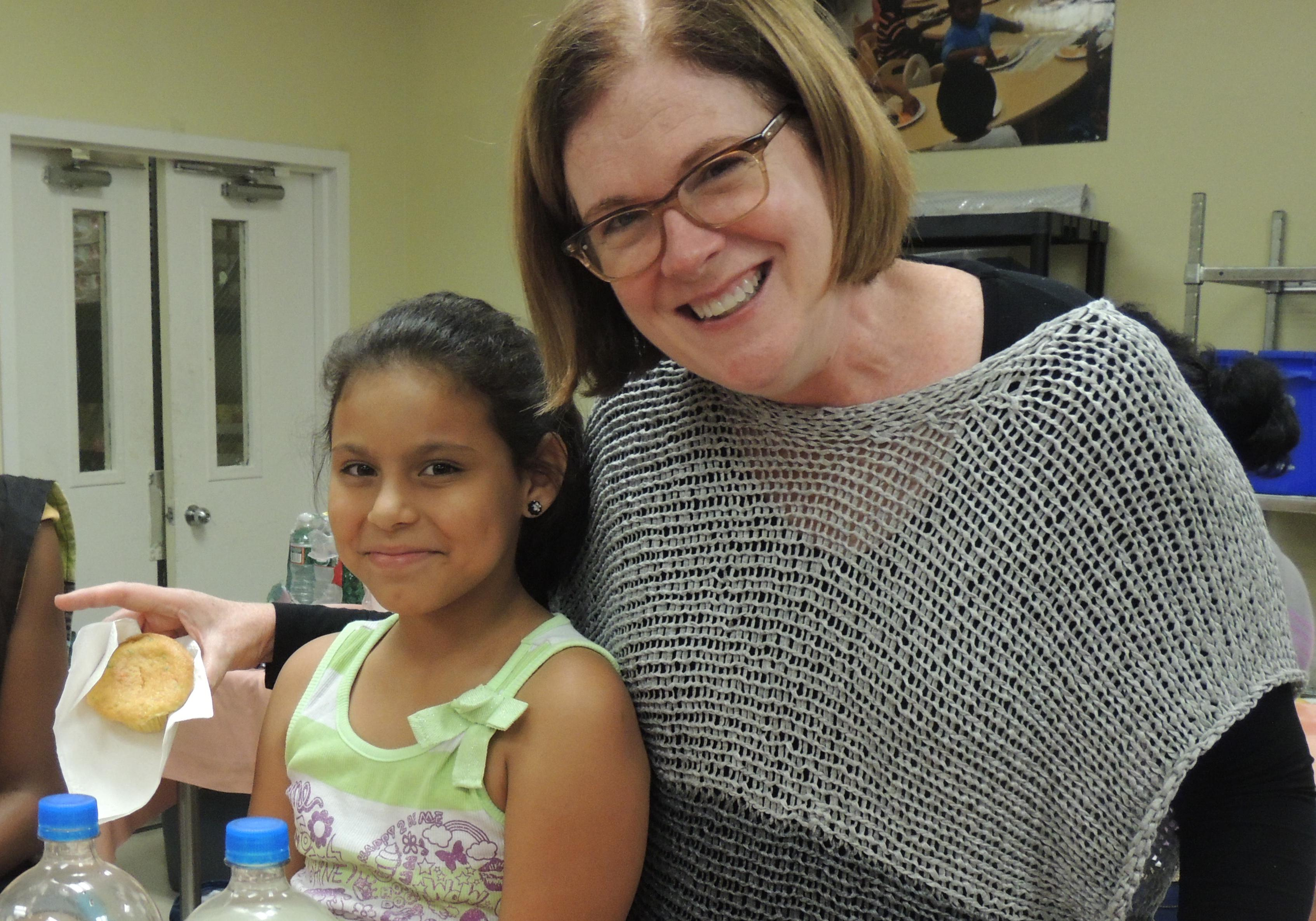 Patty Stonesifer, President and CEO of Martha's Table